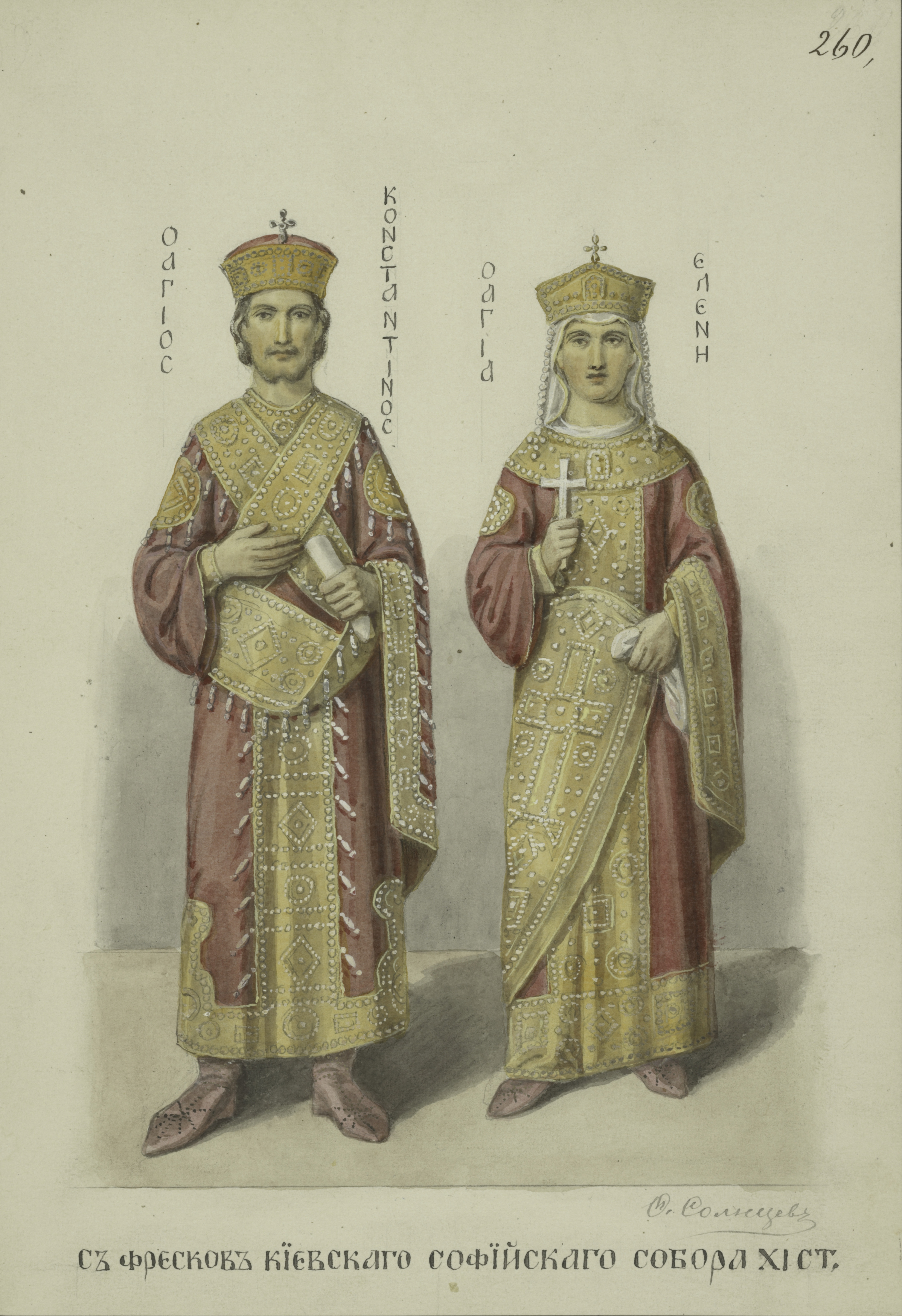 Byzantine emperor St. Constantine with mother St. Elena. From frescos in Sofia's cathedral in Kiev. XI century.